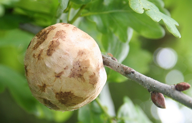 An oak apple is a mutation of an oak leaf caused by chemicals injected by the larvae of certain kinds of gall wasp.